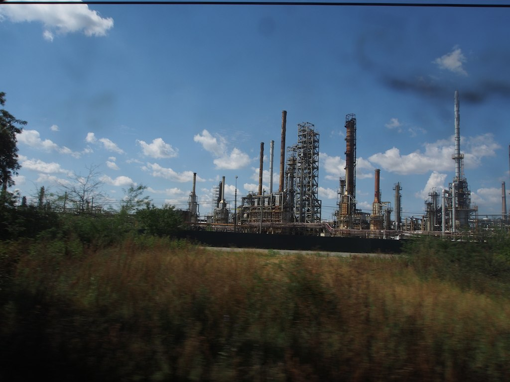 The world first oil refinery. The refineries were also the target of some of largest bomb attacks carried out in WWII by US, British and Soviet medium and heavy bombers.